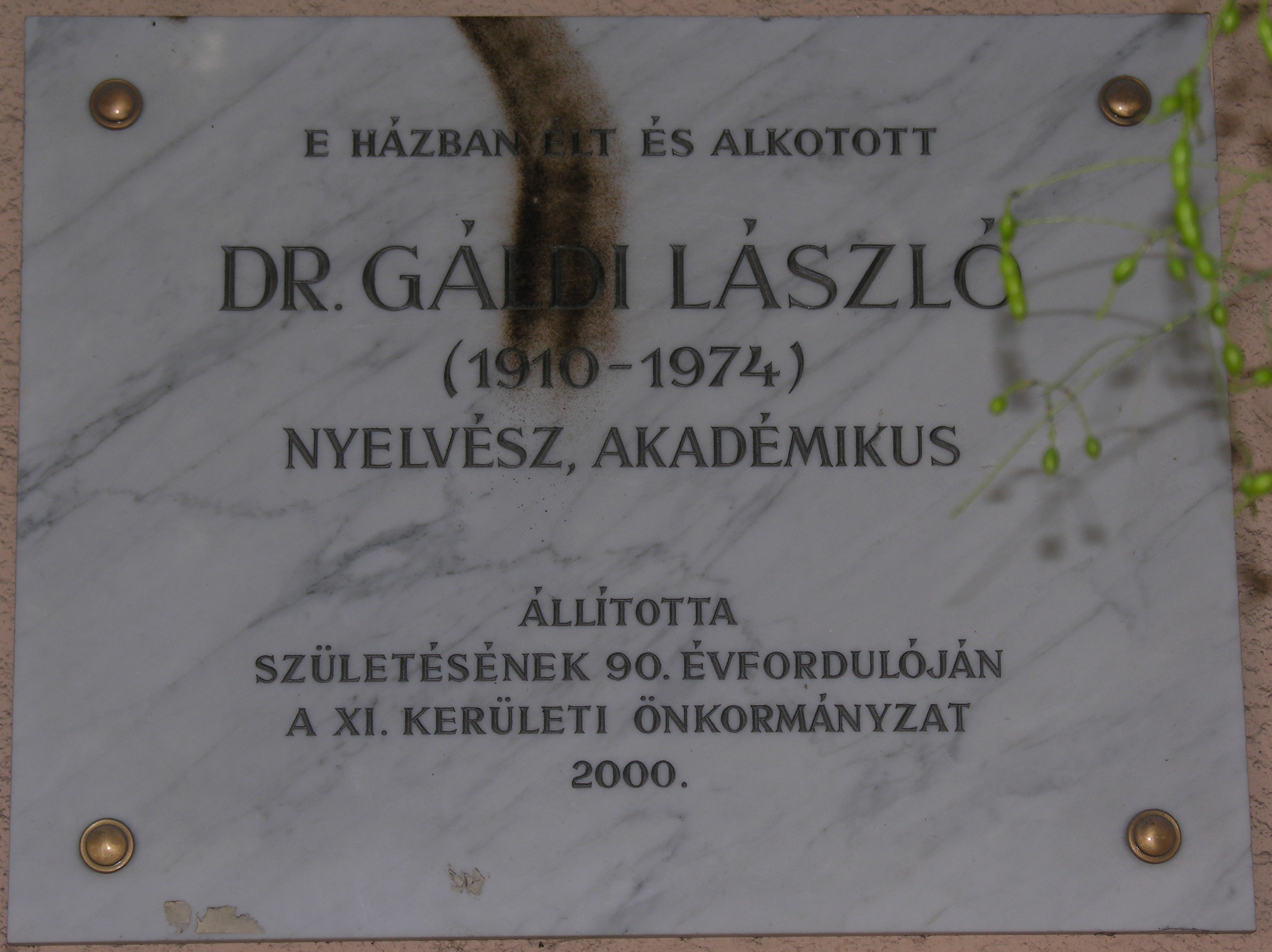 Commemorative plaque of László Gáldi in Budapest District XI, Karinthy Frigyes Street No 13